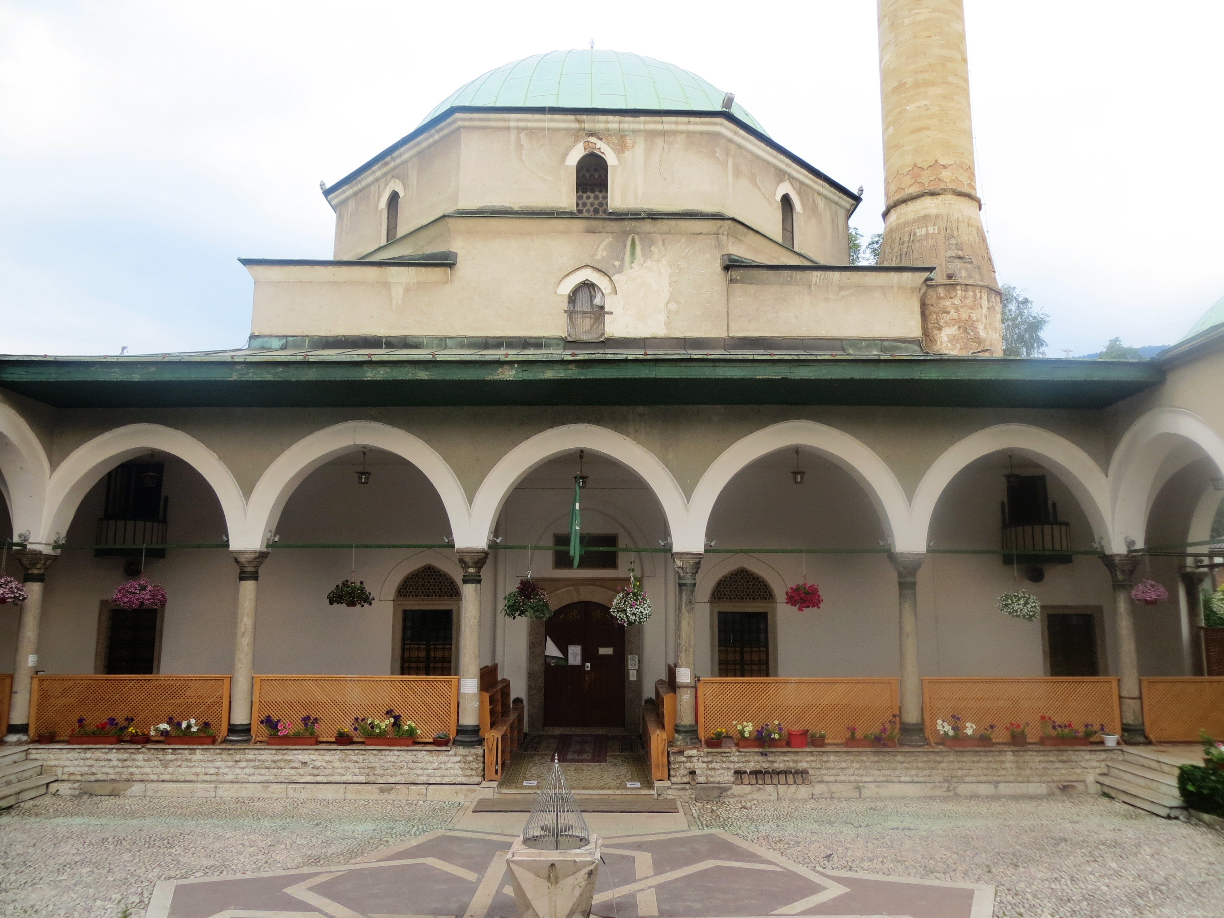 Old part of the city of Sarajevo, Bosnia-Hercegovina. All the buildings are at least 100 years old, thus not violating the laws on Freedom-of-Panorama in the country.